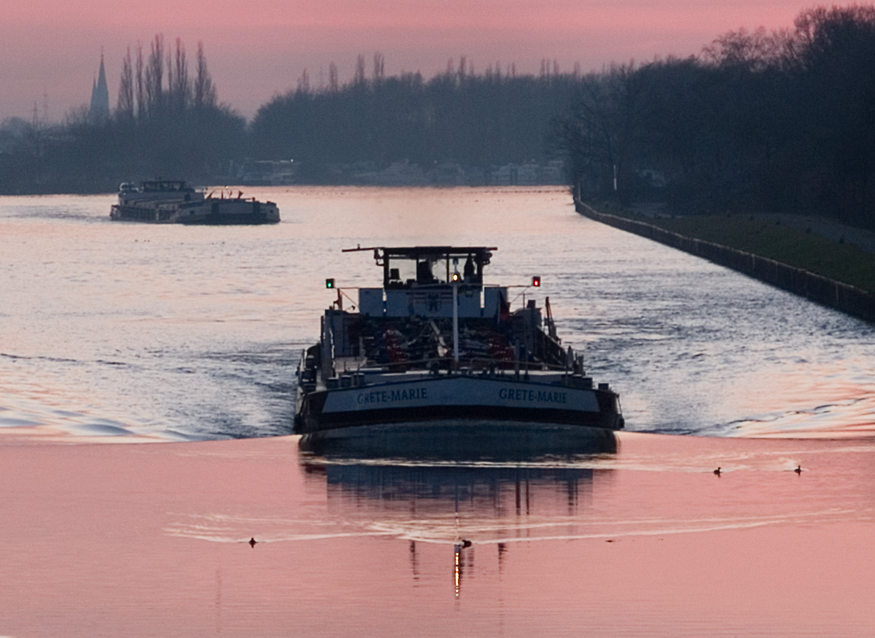 Marine position lights at a canal ship at Rhine-Herne Canal.